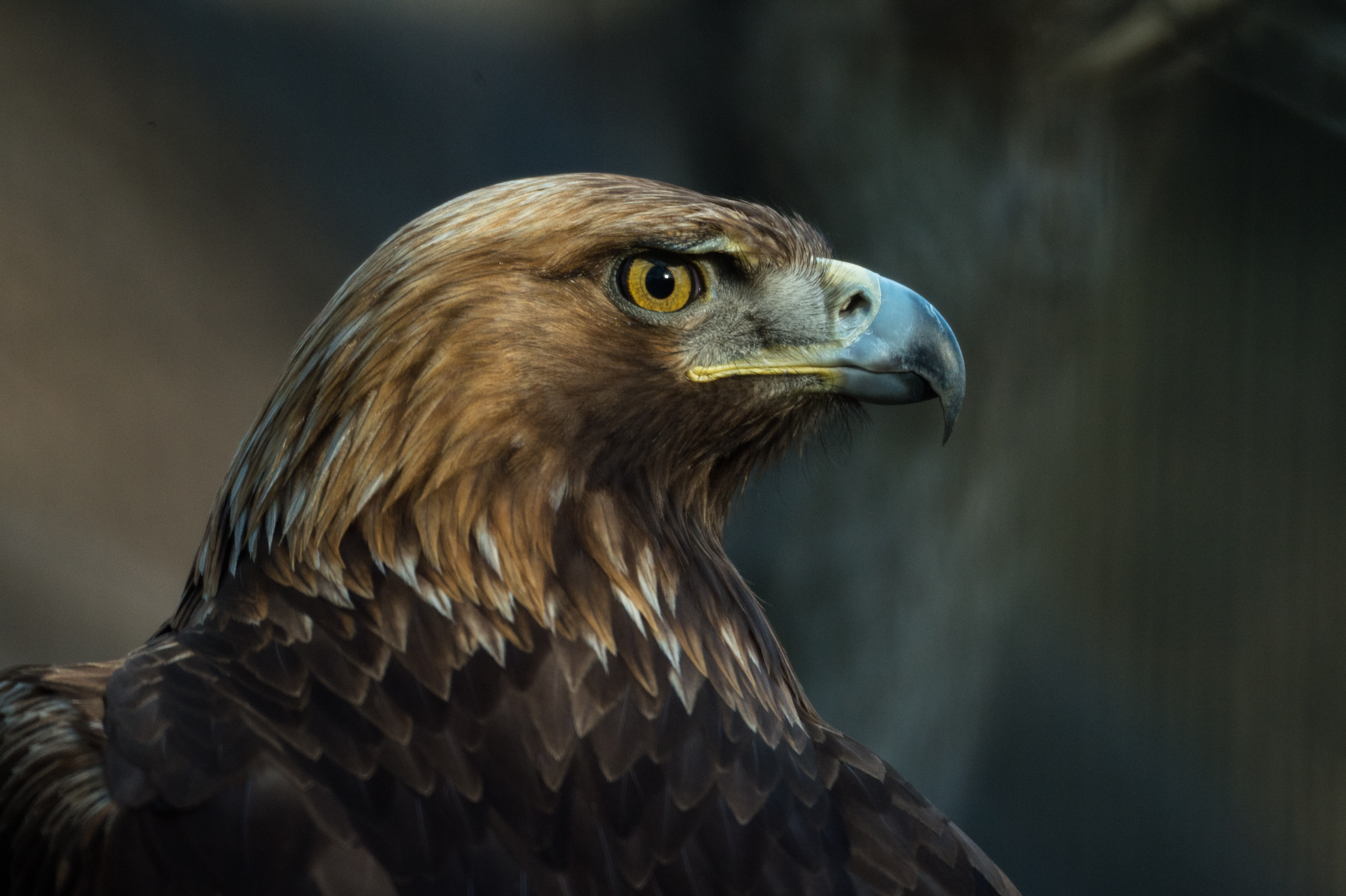 I liked the cool profile. カッコイイ横顔。とっても強そうです。 [ Nikon D4, Kenko Mirror Lens 800mm f/8 DX, 1/500sec, ISO2000, Lightroom 5 ]